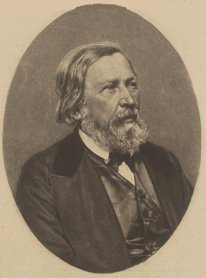 Jean Pierre Eduard Désor (1811-1882), german-swiss geologist